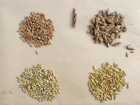 seeds of (left to right, up first) wheat, spelt, barley, oat